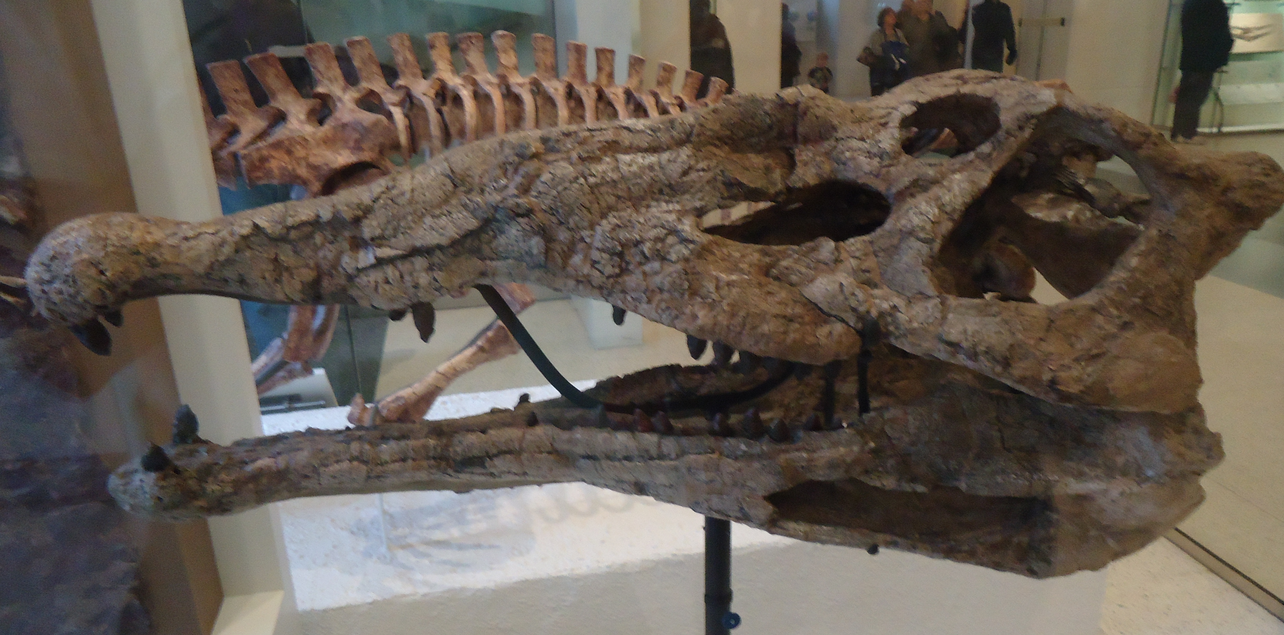 Leptosuchus gregorii skull, American Museum of Natural History